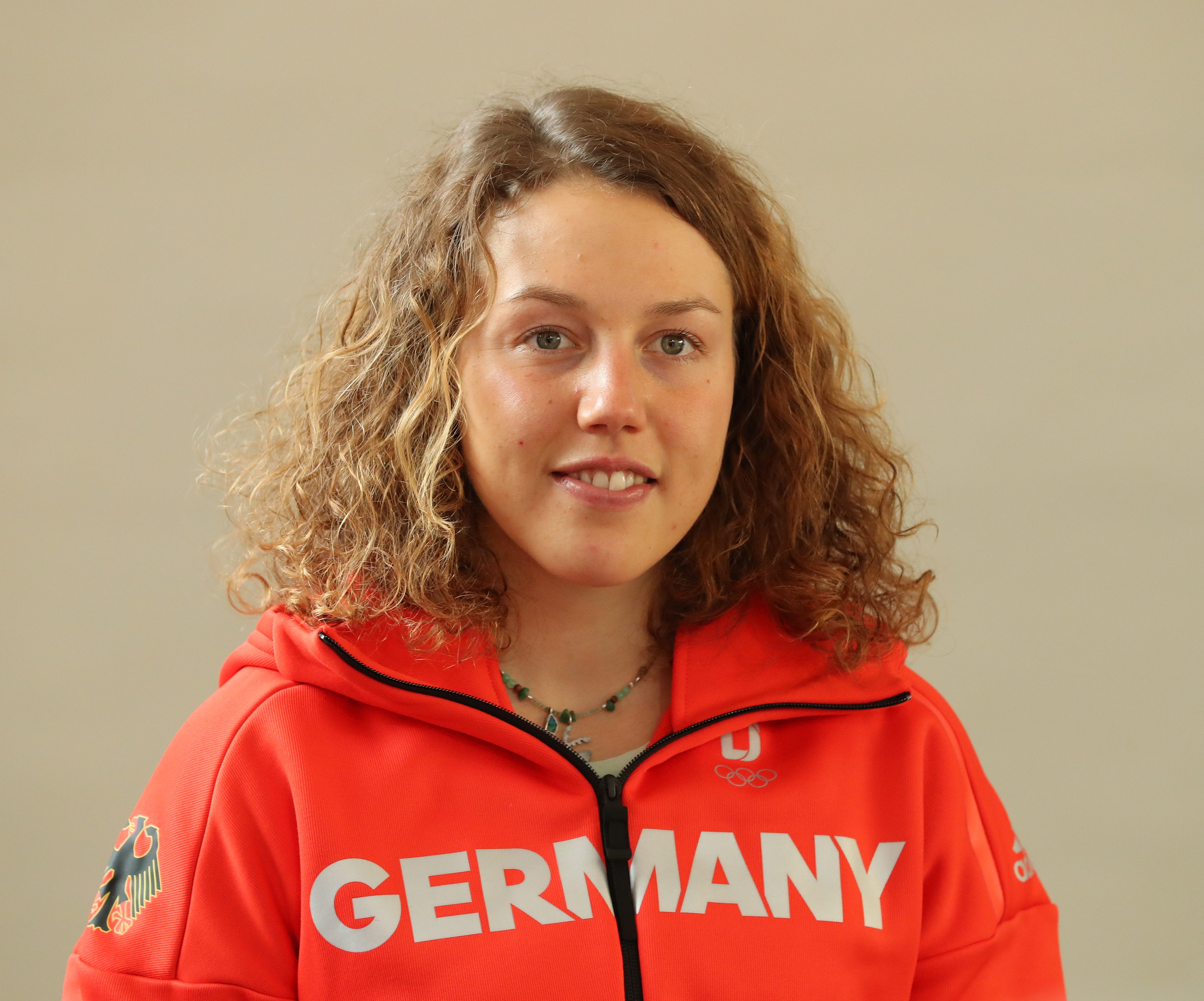 Portraits at the Clothing of the German team for Winter Olympics 2018 in Pyeonchang.